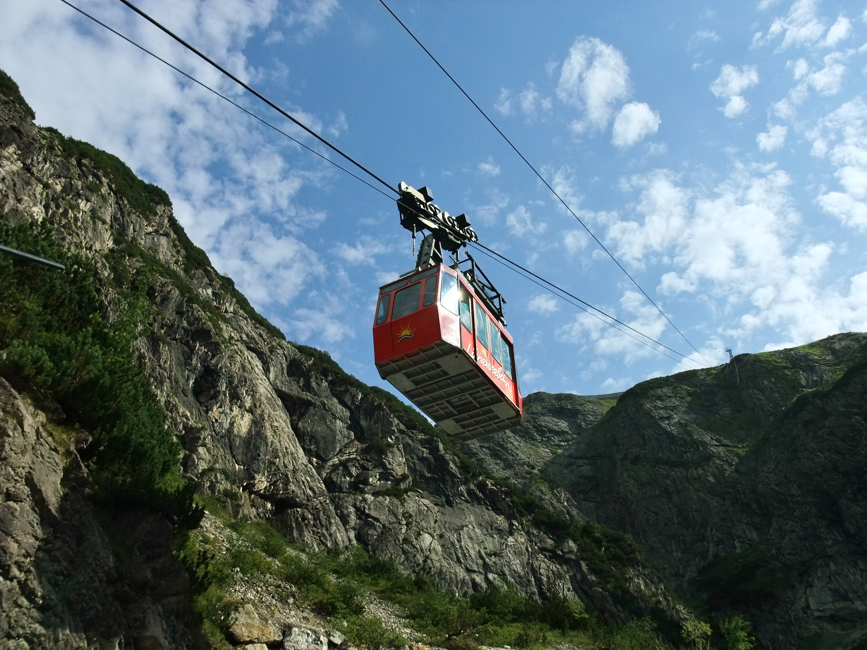 The Lünersee is a lake and reservoir. It is situated in the westernmost federal state Vorarlberg in Austria. View to Lünersee cable car near mountain station.